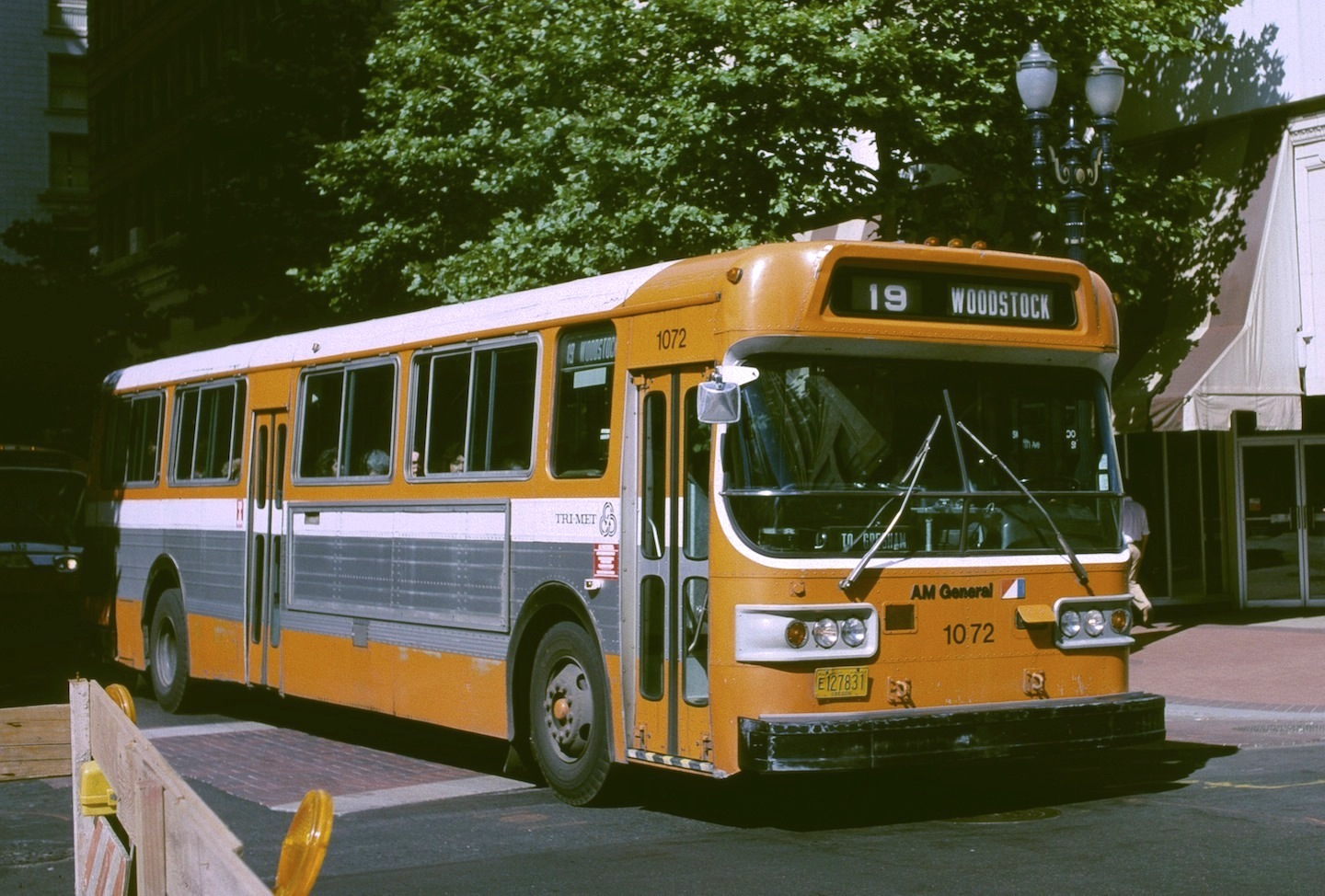 Tri-Met (now TriMet) bus 1072, a 1976 AM General 10240B, southbound on 5th Avenue at Morrison Street in downtown Portland, Oregon. Tri-Met had 100 AM General buses.